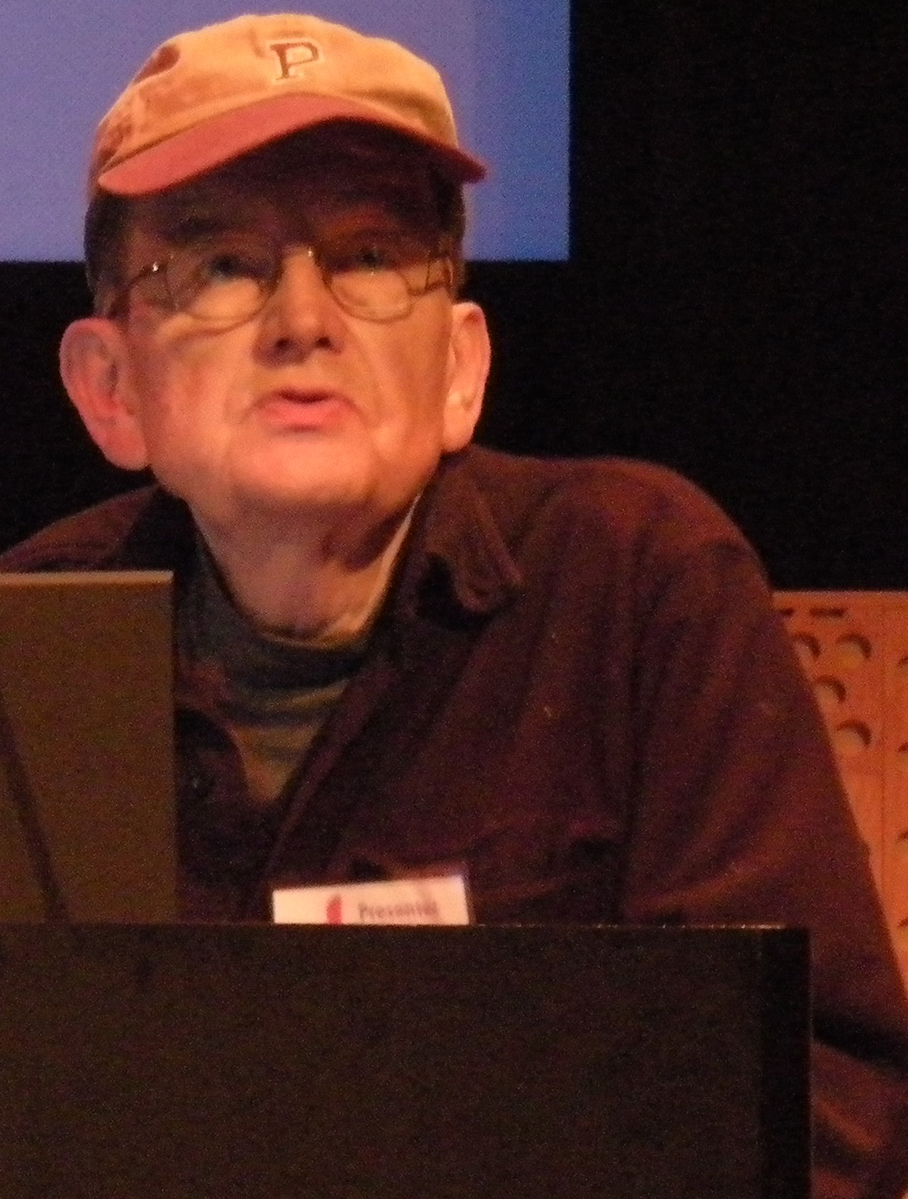 Richard A. "Pete" Peterson (Sounds of Social Change, Creating Country Music: Fabricating Authenticity, etc.) on panel "Making Roots Music Pop Heroes" at the 2008 Pop Conference, Experience Music Project, Seattle, Washington.